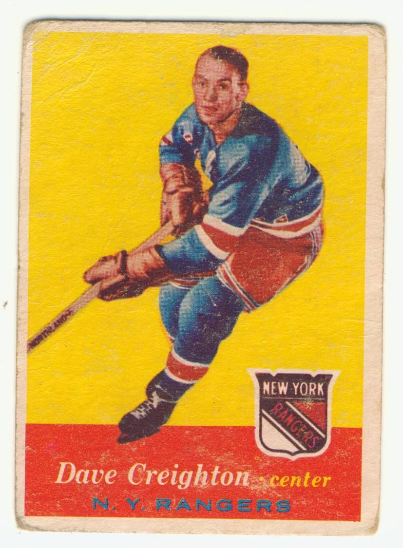 Dave Creighton